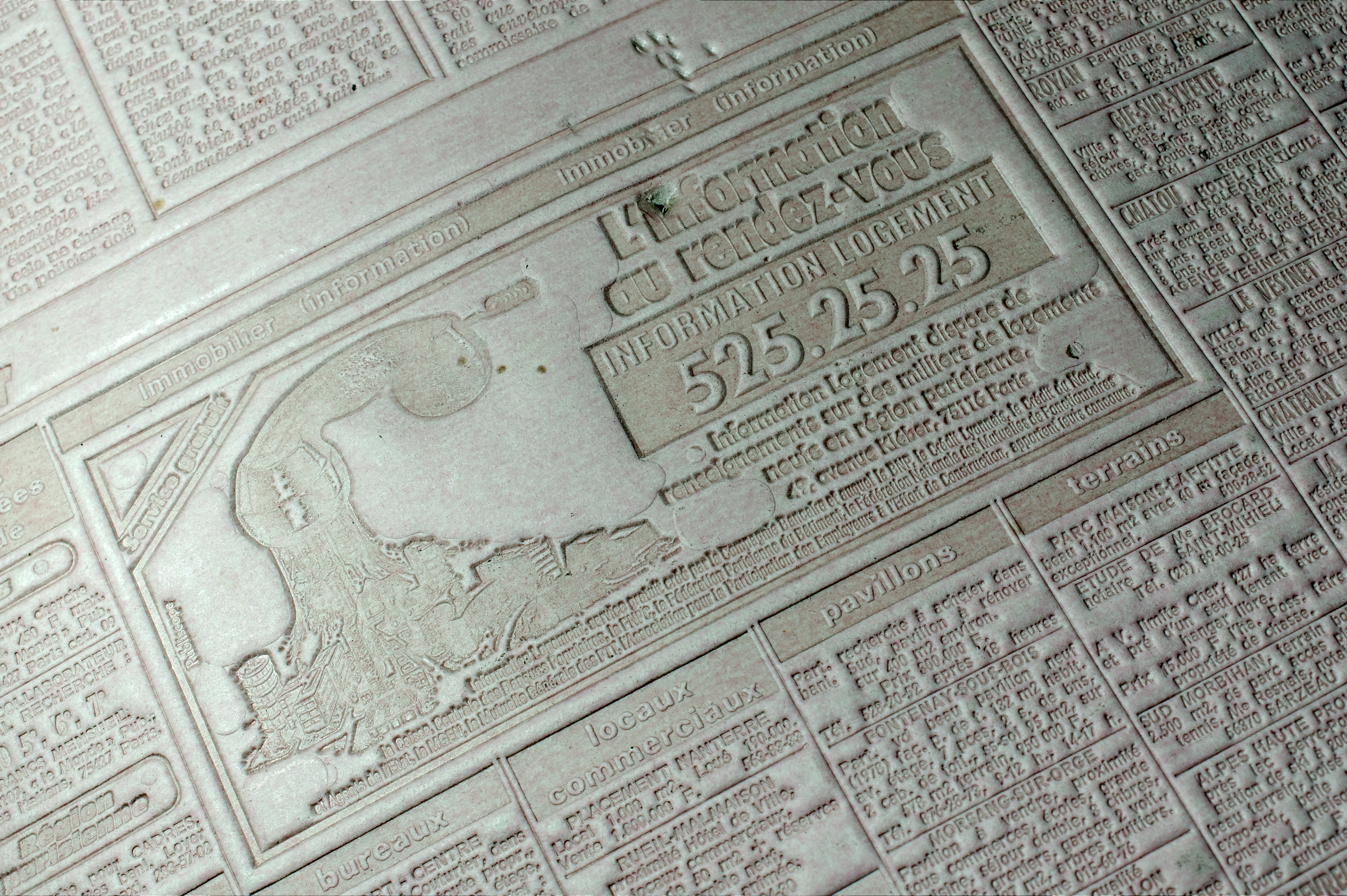 The flan d’imprimerie is some kind of matrix made of cardboard or rubber.